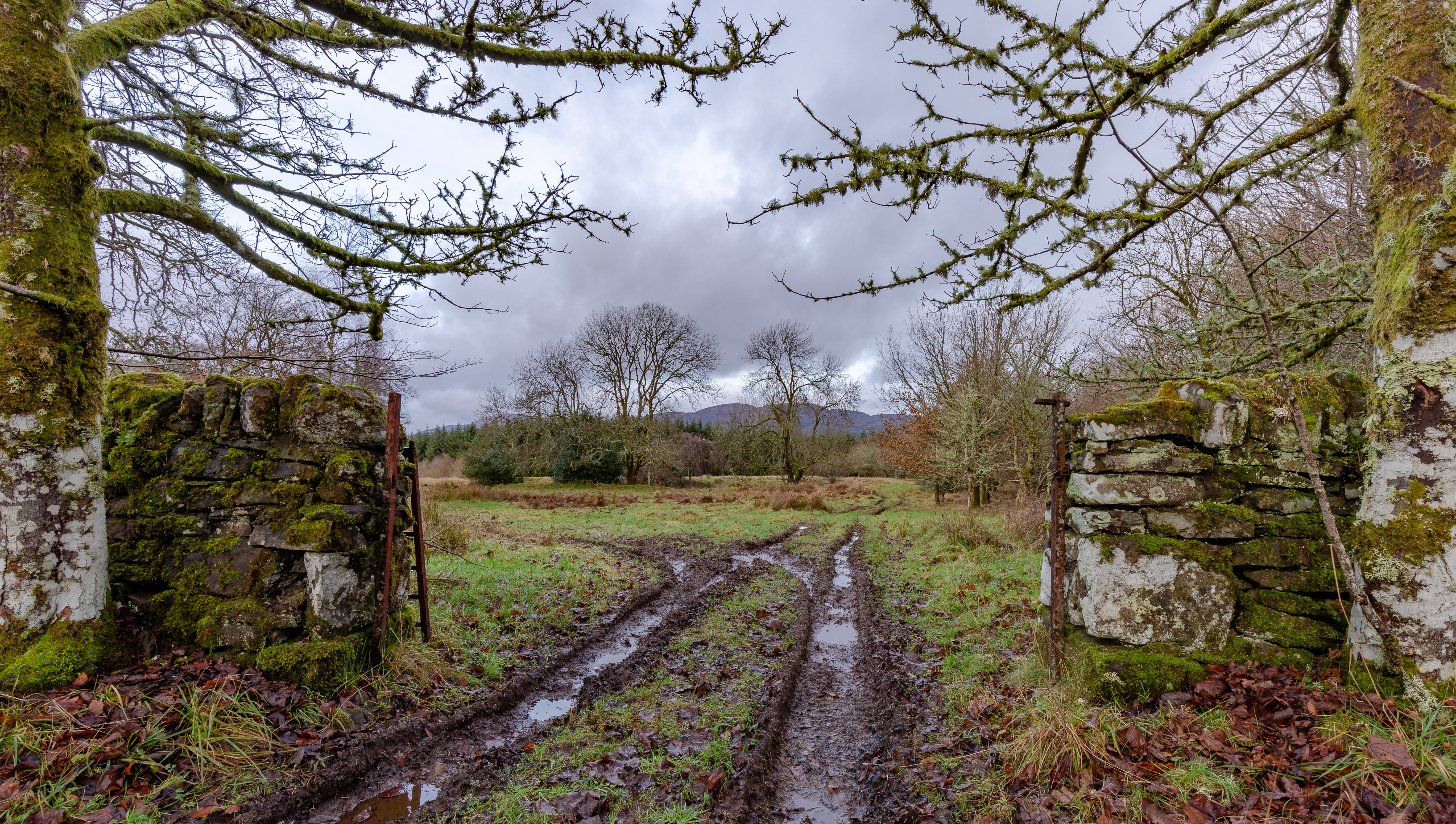 Gate and farm tracks close to Gartur Stitich Farm, Port of Menteith, Stirling council area, Scotland